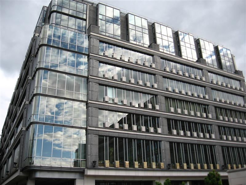 Warsaw Stoch Exchange Building, Poland